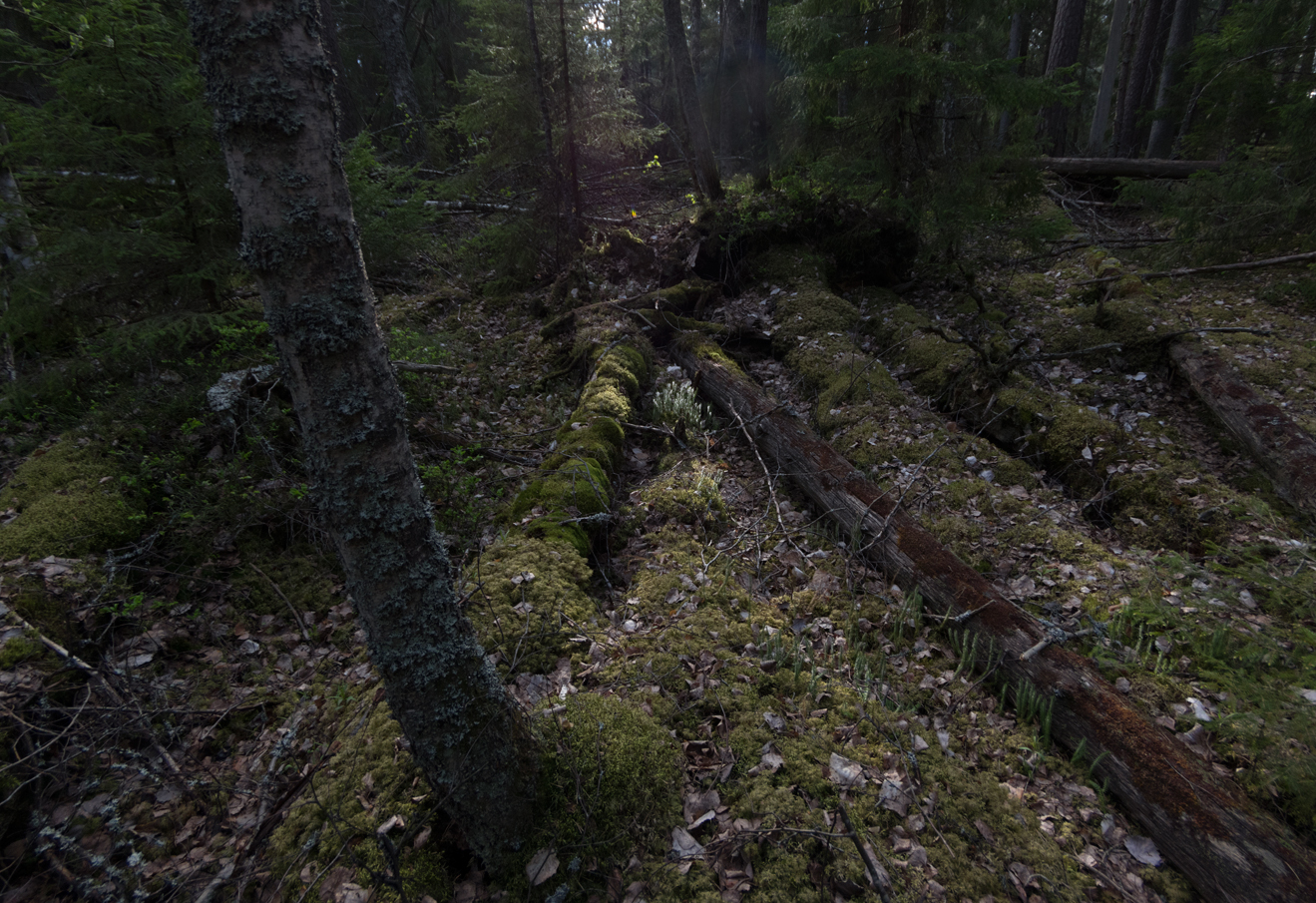 The floor of the primaeval forest is dusky. A sliver of light found its way down and illuminated stiff club moss (Lycopodium annotinum) and other undergrowth.